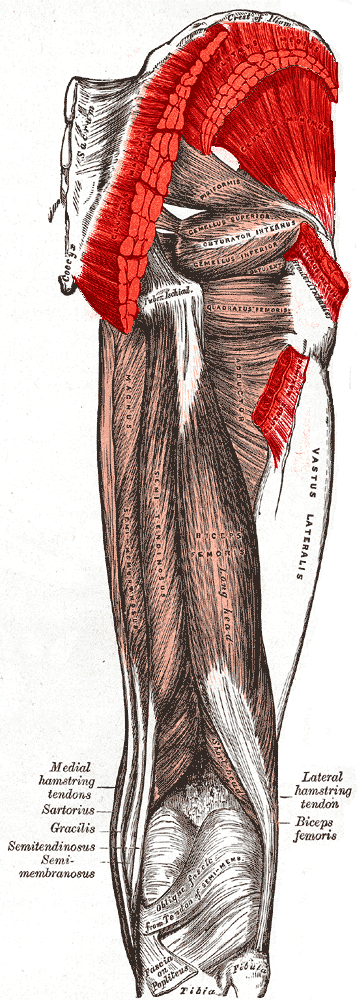 Muscle highlighted